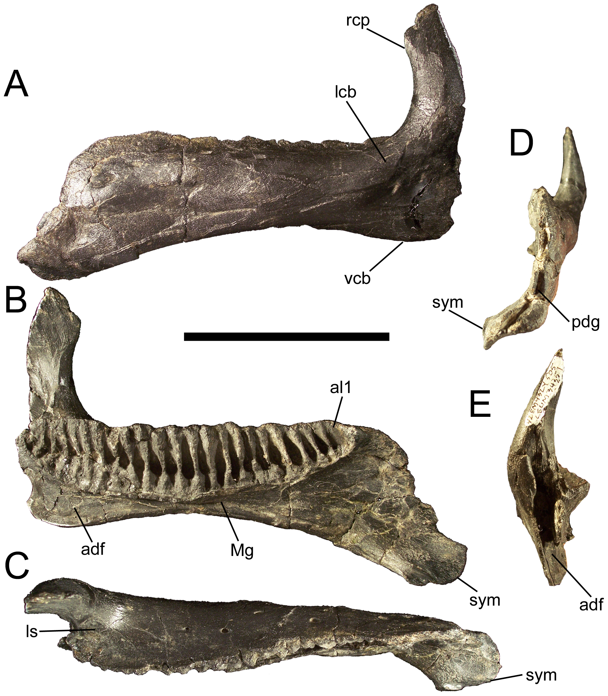 Dentary of Eolambia. Left dentary CEUM 34357 (Eo2) in (A) lateral, (B) medial, (C) dorsal, (D) rostral, and (E) caudal views. Abbreviations: adf, adductor fossa; al1, rostral-most alveolus; lcb, lateral convex bulge; ls, lateral shelf between the tooth row and base of the coronoid process; Mg, Meckelian groove; pdg, groove for contact with predentary; rcp, rostral expansion of the coronoid process; sym, symphysis; vcb, ventral convex bulge. Scale bar equals 10 cm.